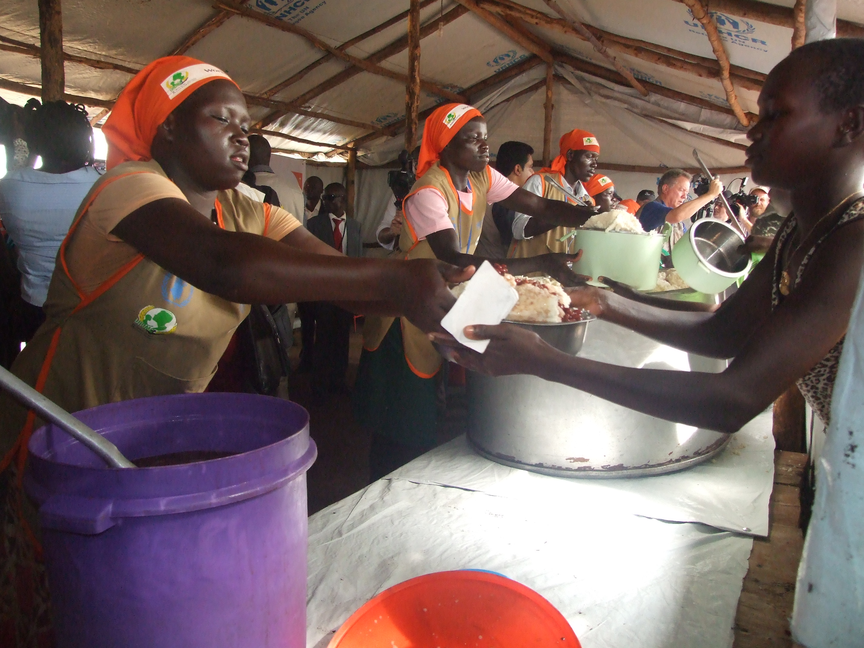 Struggling to get a share of food in a camp This is an image of "African people at work" from Uganda